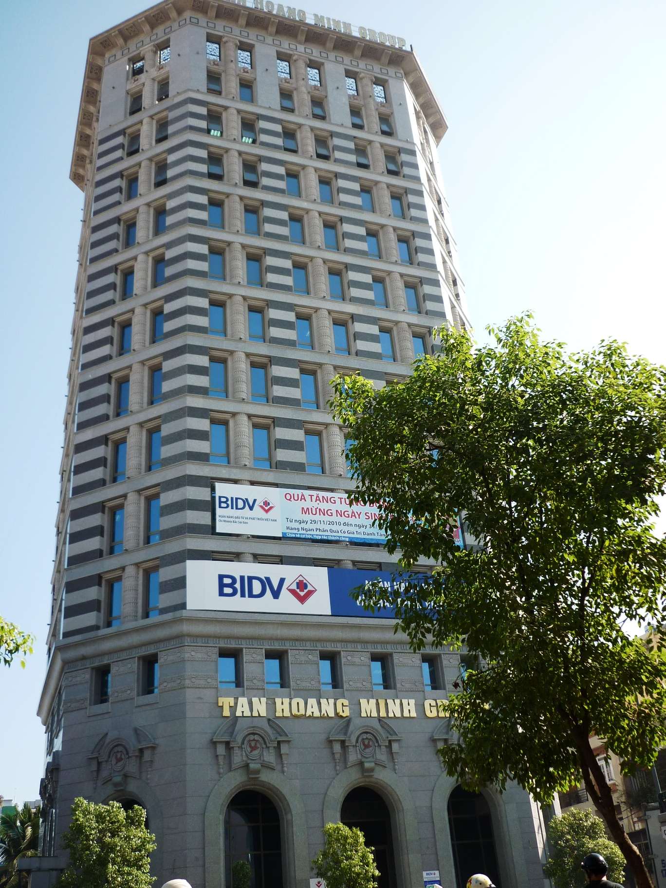 Tan Hoang Minh building located on Nam Ky Khoi Nghia street,District 3,HCMC